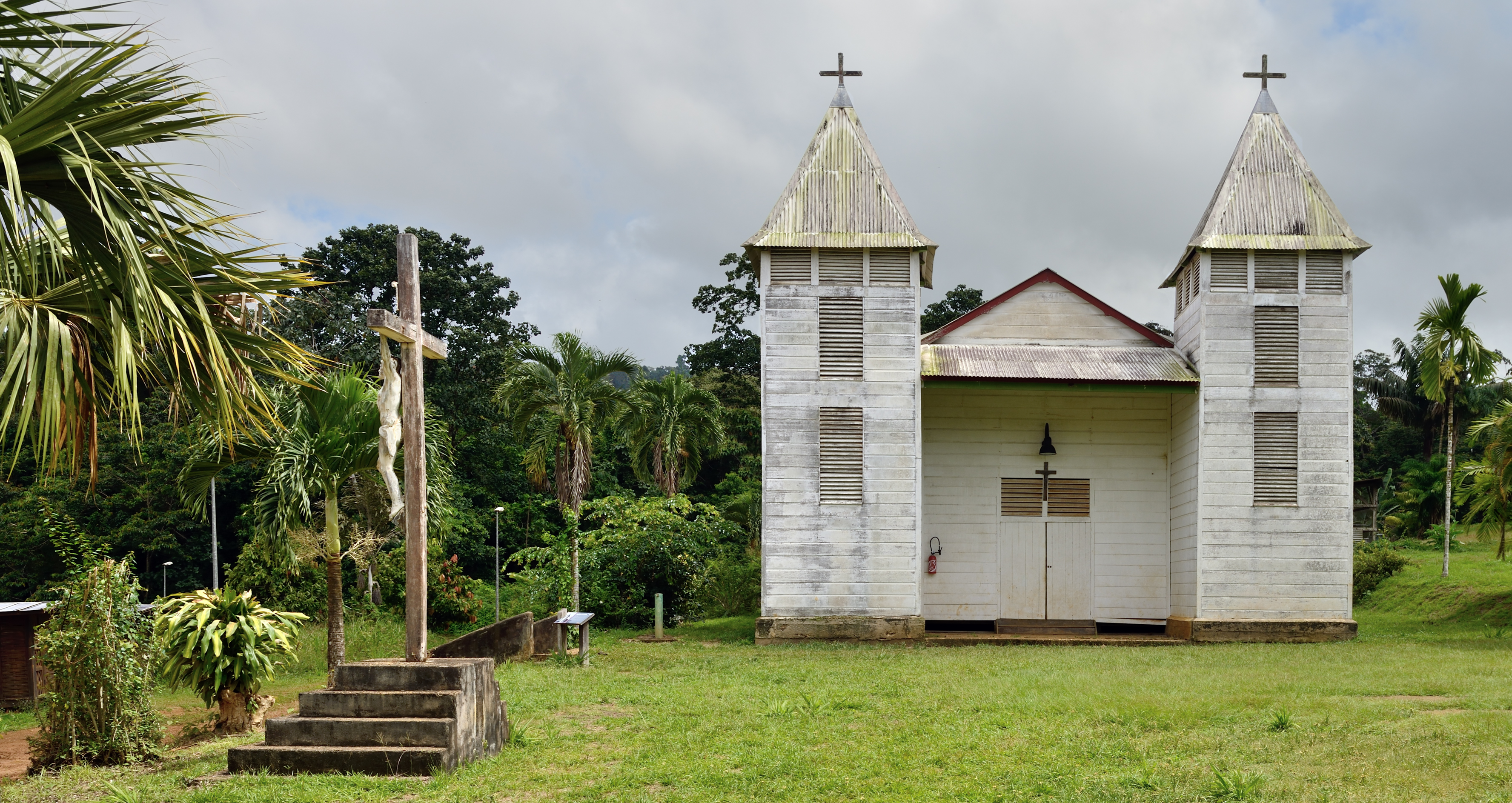 Church Saint-Antoine-de-Padoue de Saül, wide view, with the crucifix at the left of the main entrance.